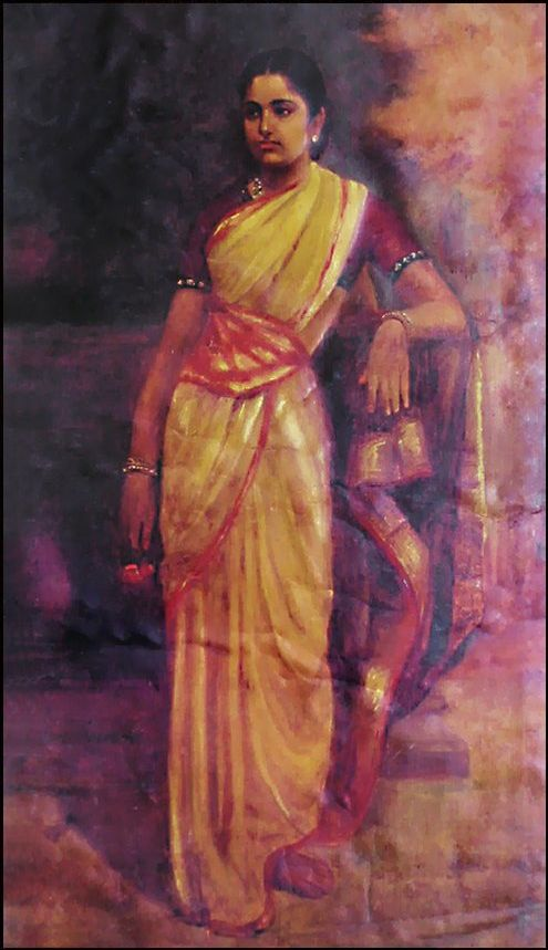 Young Woman in Russet and Crimson Sari. Probably a modern Keralite at the time, who uses sari instead of Keralite clothing, but uses Keralite style earrings and ornaments.